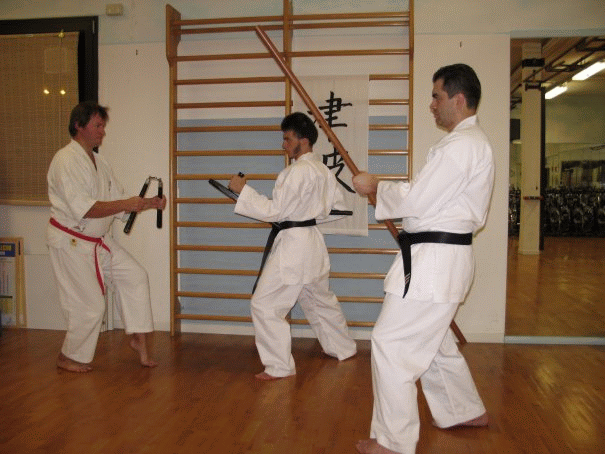 Photo copyrights released by the owner and sent to